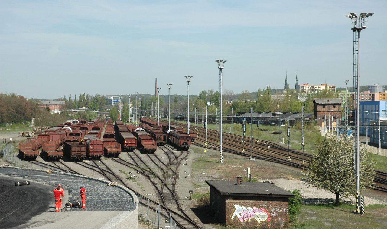 Ostrava báňské nádraží - a part of Ostrava hlavní nádraží (main station), Czech Republic